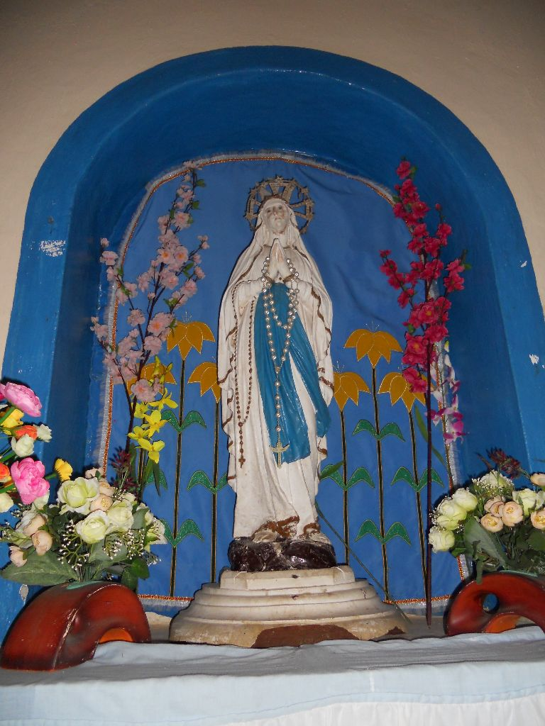 Madonna of Aitara, East Timor